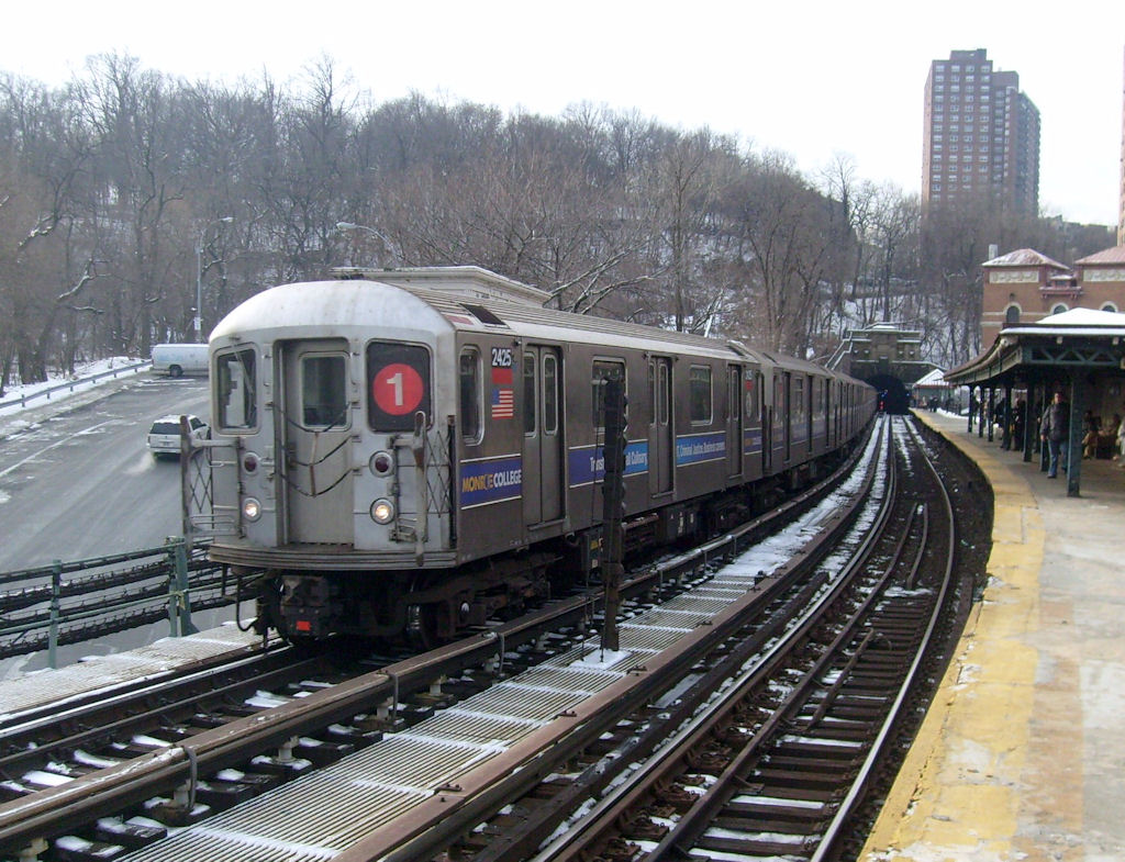 R62A 1 Train at Dyckman Street Station